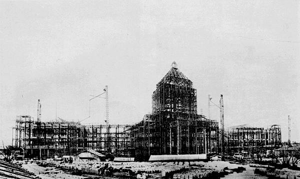 Construction of Japanese Diet Hall March 1927